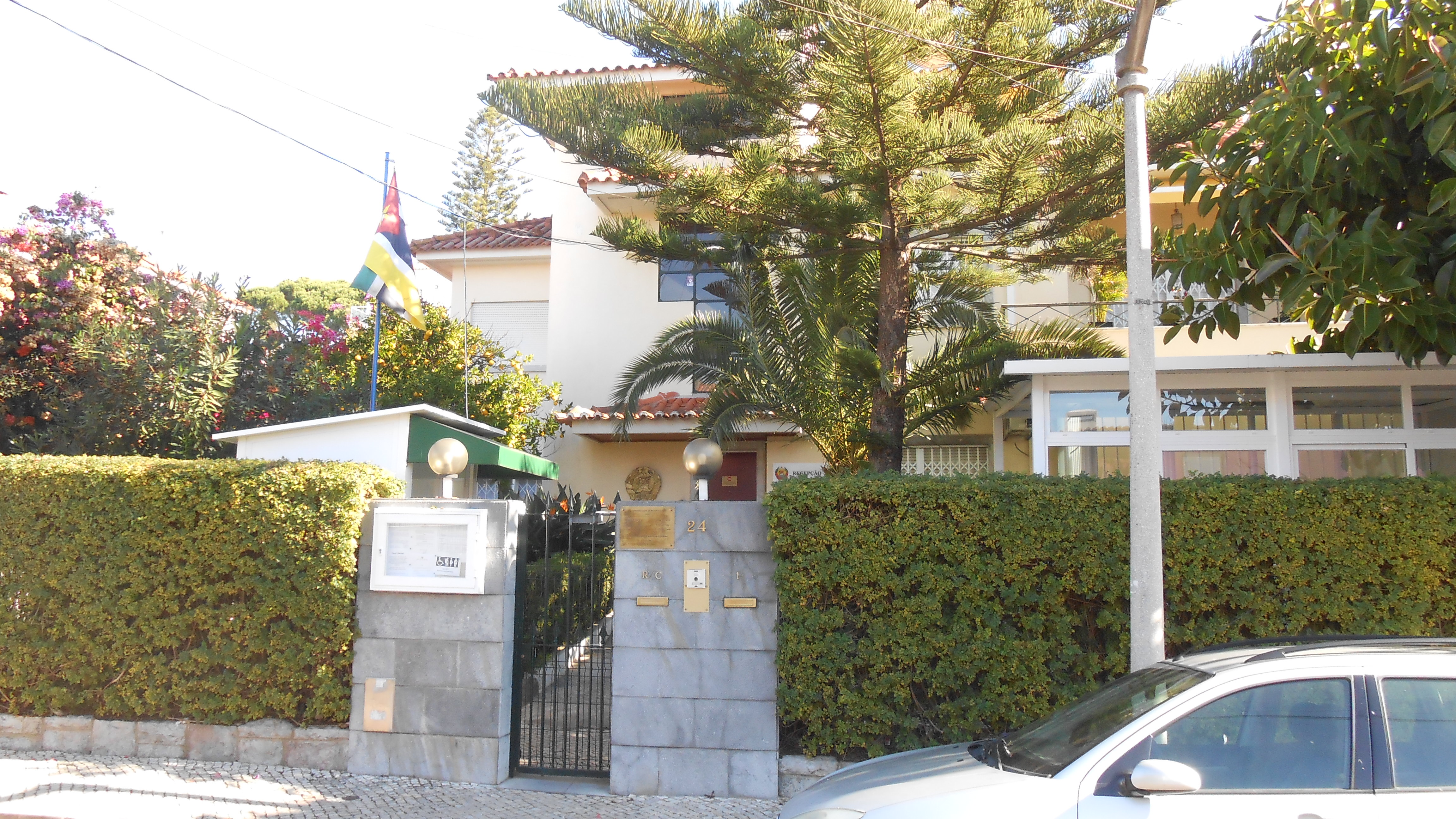 The Mozambican Consulate in the Rua Dom Constantino de Bragança in the Belém neighbourhood of Lisbon